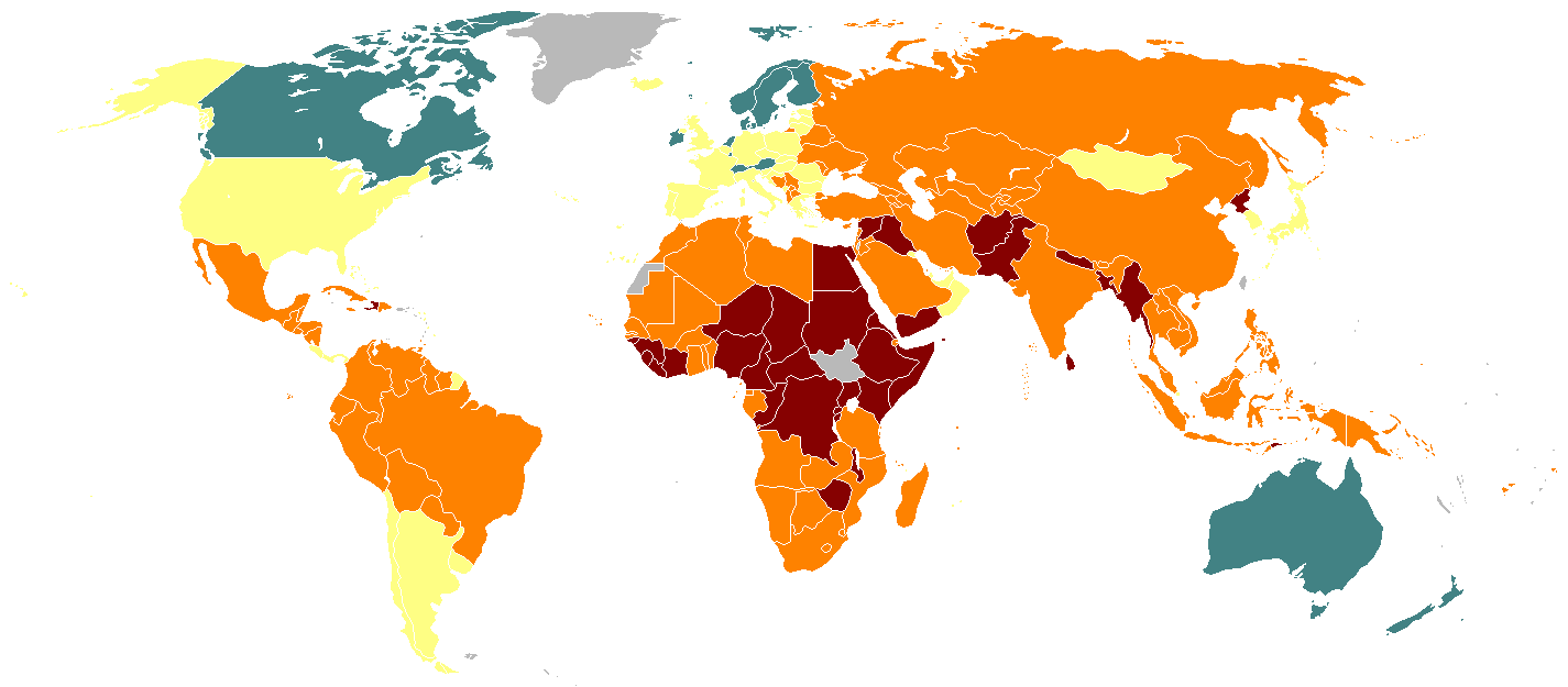 World Map, showing Failed States according to the "Failed States Index 2012" [1] Legend Alert Warning Moderate Sustainable No Information / Dependent Territory